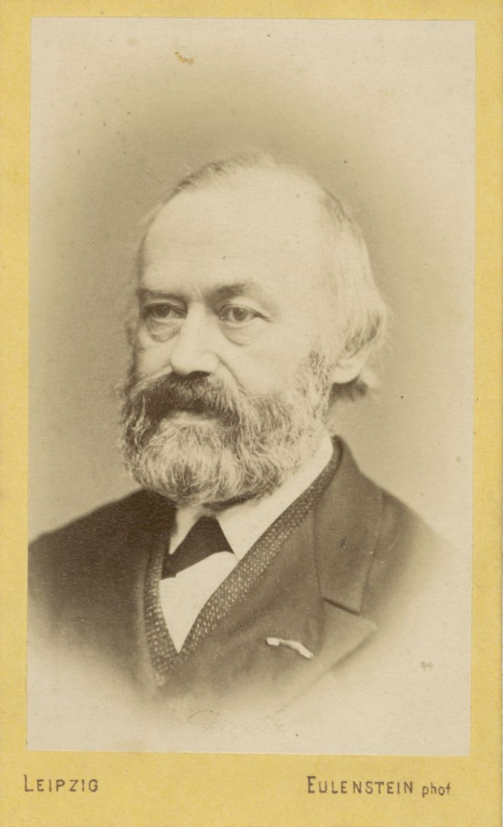 Photographer: Eulenstein, Leipzig Date/place: Unknown date/Leipzig Subject: Ferdinand David Medium: Photographic posetiv Notes: German composer & violinist. Born in Hamburg 19.06. 1810 - dead in Graubünden 18.07. 1873 Original belongs to the Archives at [#//bergenbibliotek.no/digitale-samlinger” Bergen Public Library]